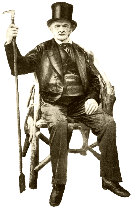 A portrait of John Jennison painted circa 1850 (artist unknown). Jennison was the man who established Belle Vue Zoological Gardens in 1836.